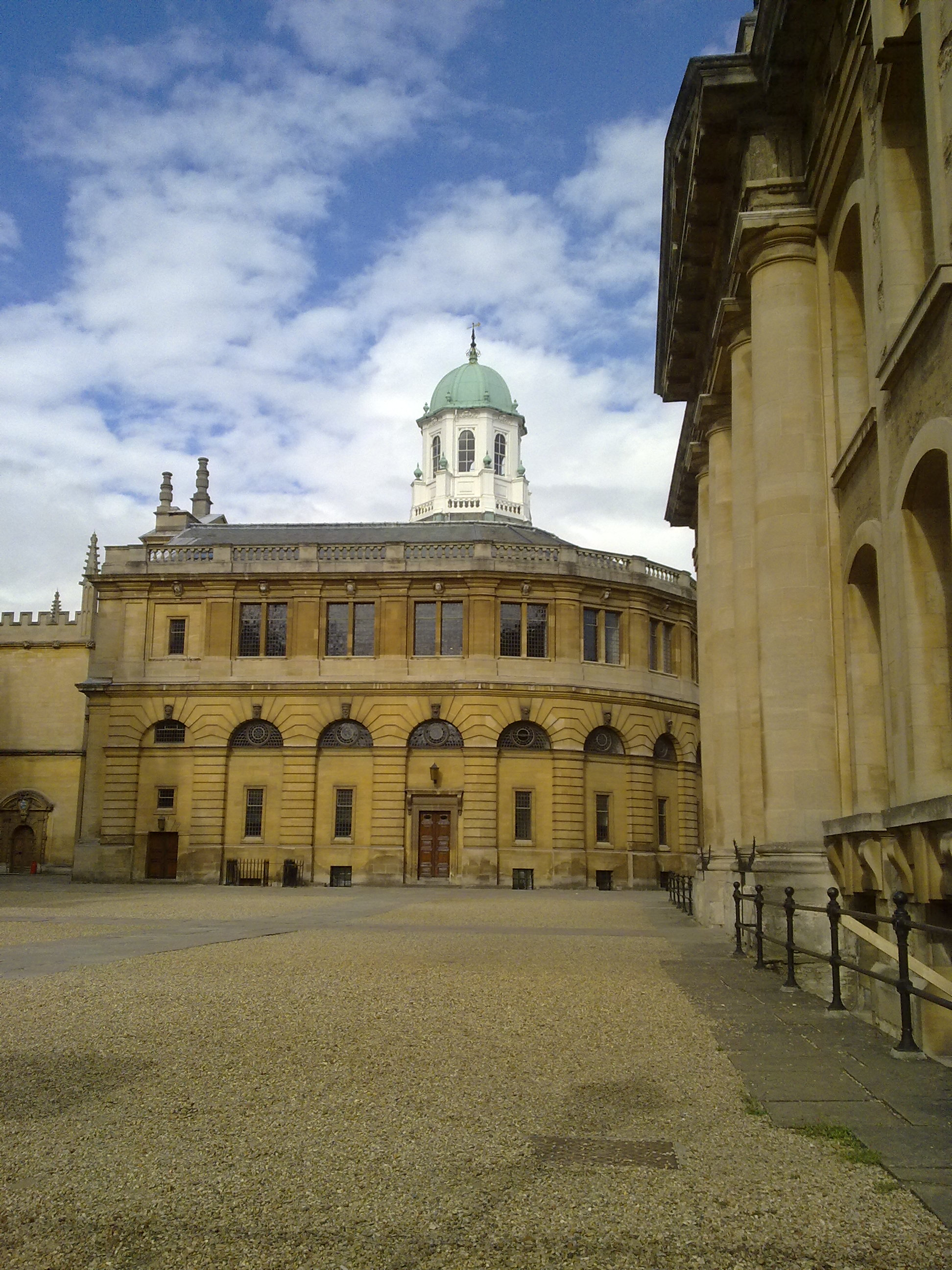 View of the Sheldonian Theatre from Catte Street (east) side of the Clarendon Building.